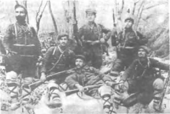 Cheta of IMARO: Petar Govedarcheto, Georgi Nikolov, Lazar Topalov, Petar Milev and 2 uknown